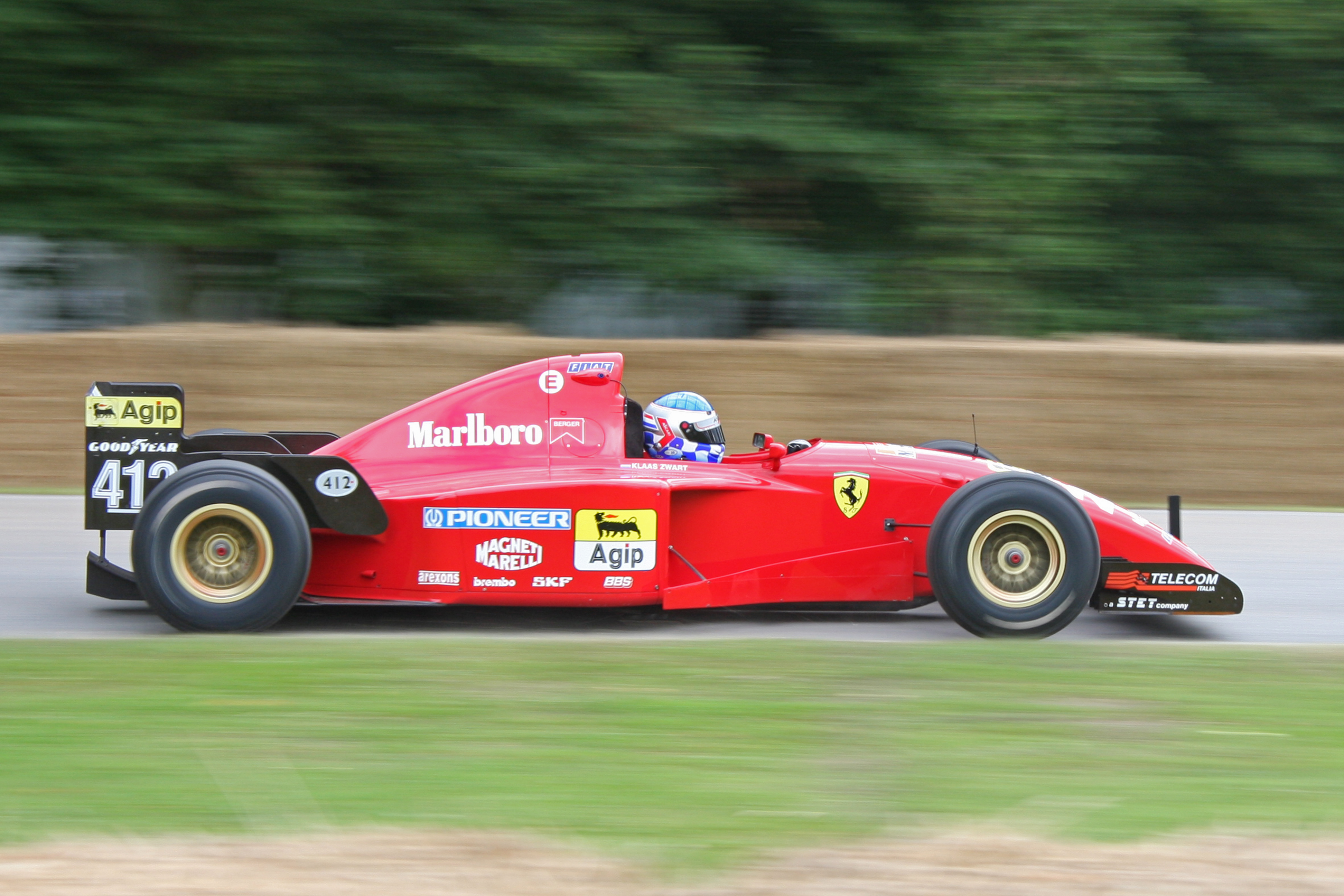 A Ferrari 412T2 being demonstrated at the 2008 Goodwood Festival of Speed by Klaas Zwart.